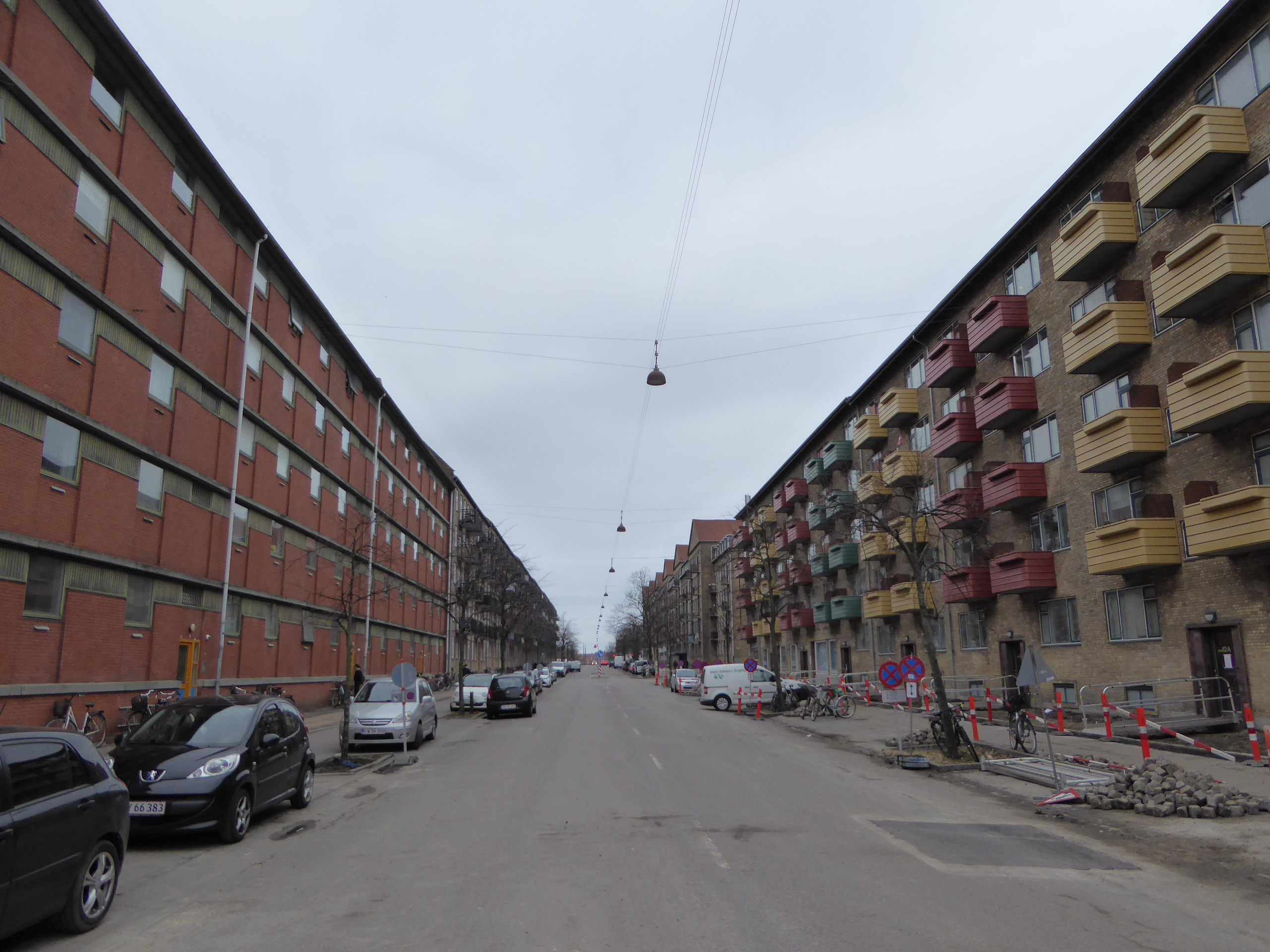 The street Haraldsgade in Nørrebro in Copenhagen.